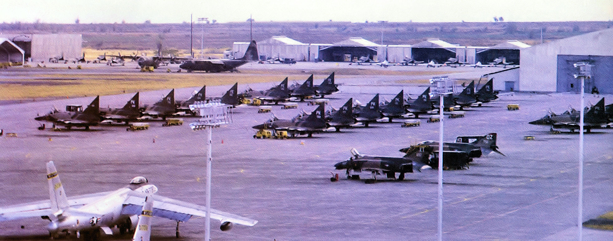 64th Fighter-Interceptor Squadron F-102s deployed at a very busy Bien Hoa Air Base, RVN, 1966 Note several C-130s, multiple squadrons of F-4 Phantom IIs, and some Air Weather Service WB-47s.